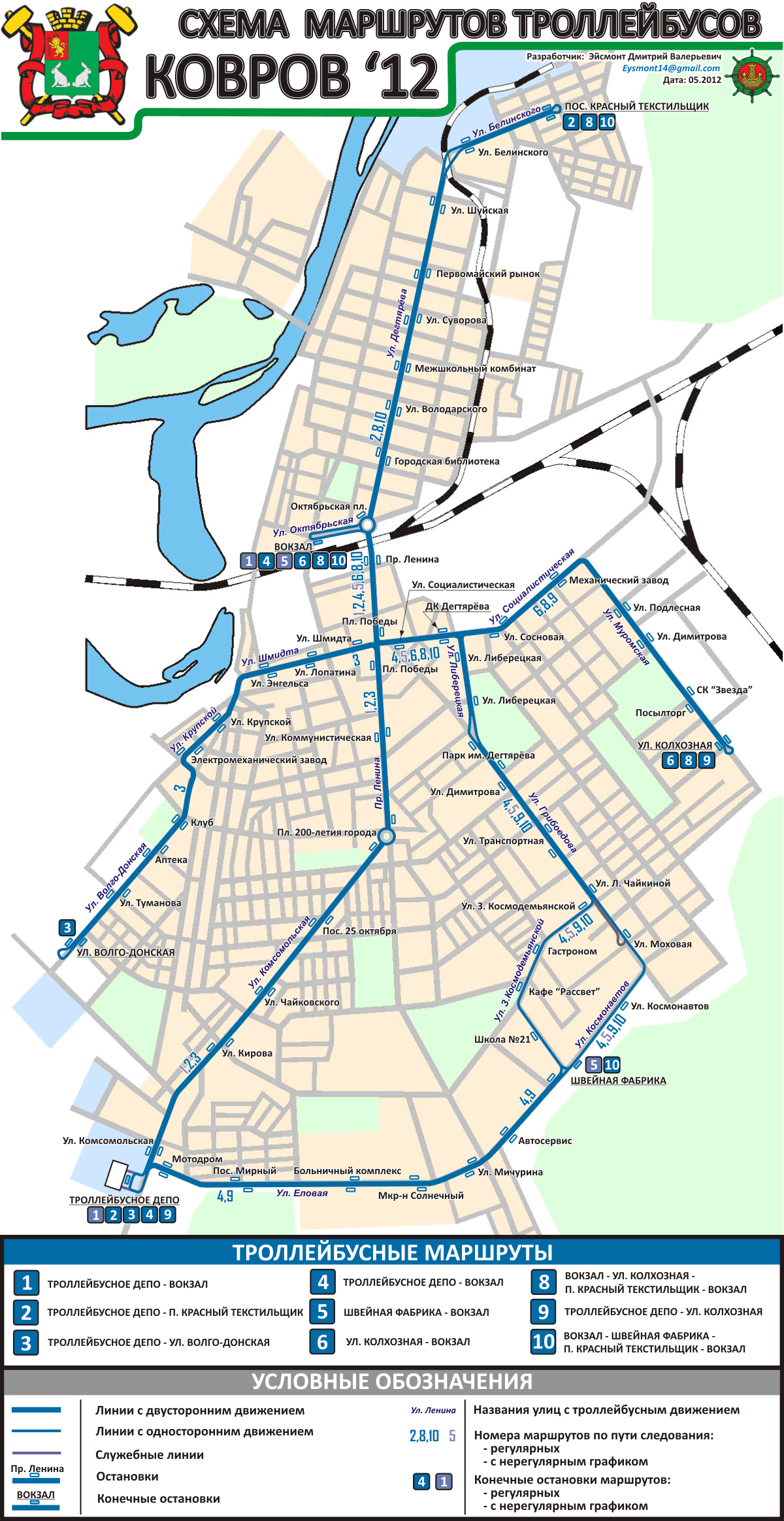 Map pf trolleybus network in Kovrov town